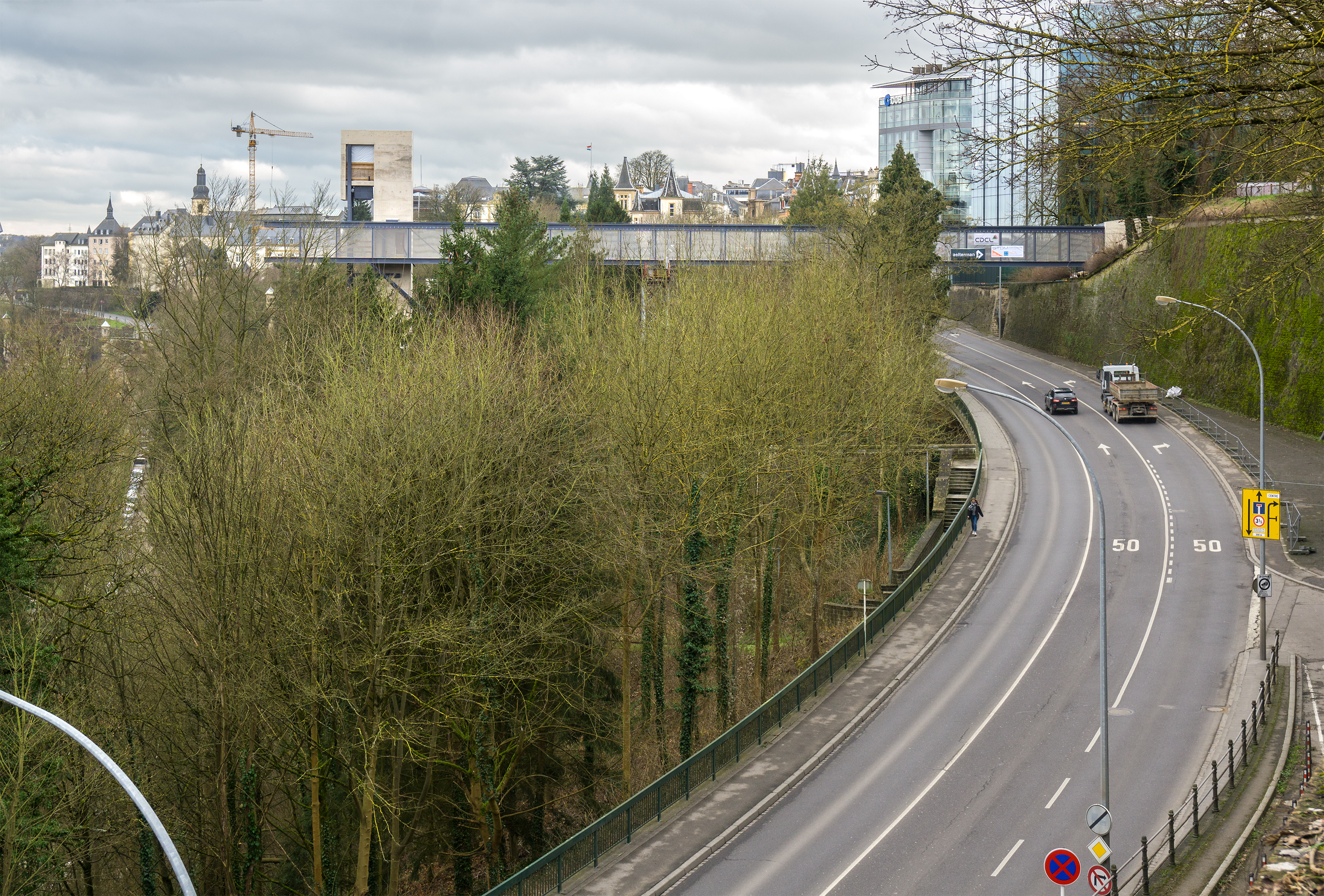 View to the Côte d'Eich with the footbridge and the elevator to Pfaffenthal